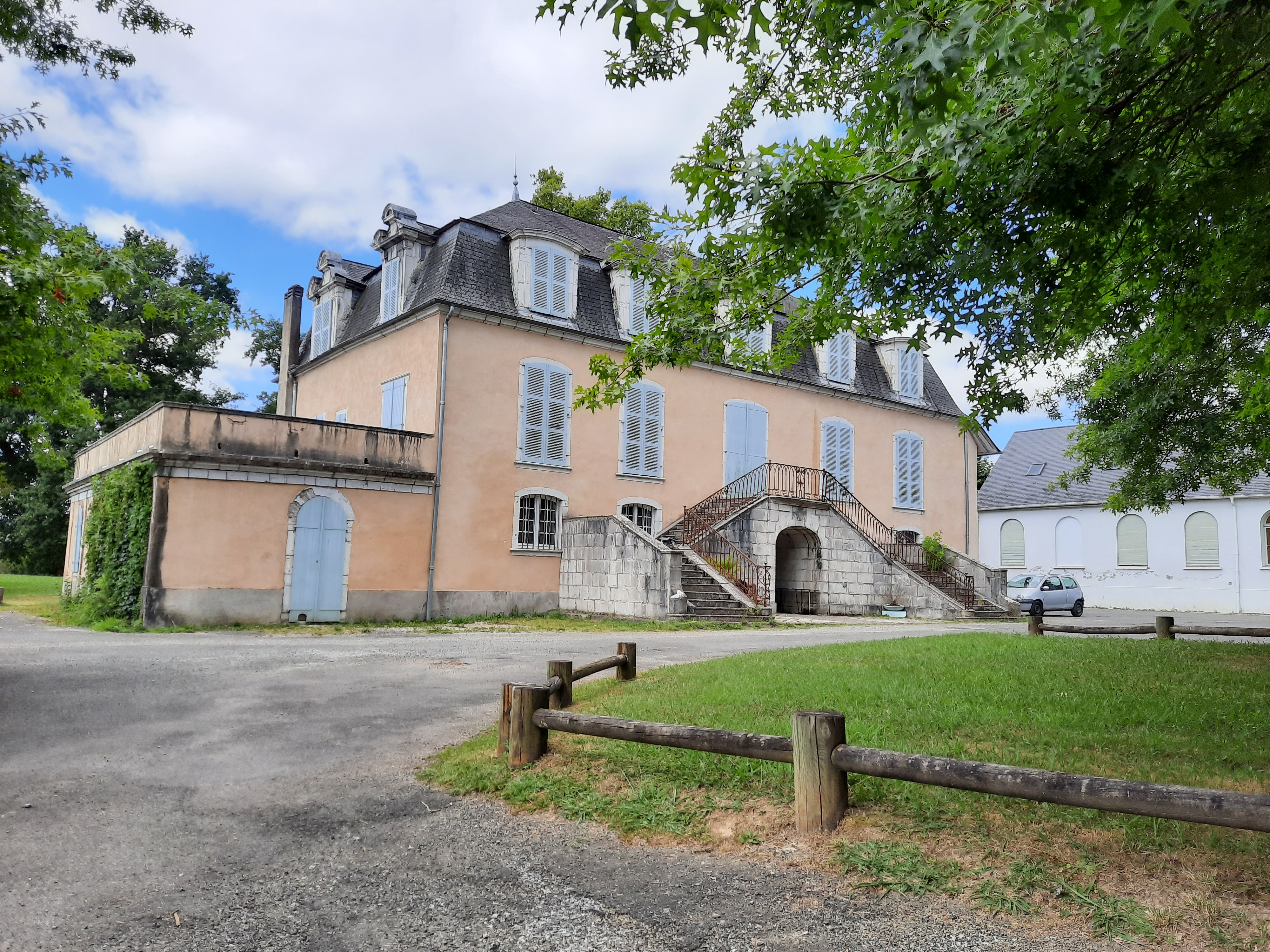 Castle of Mosqueros, in Salies-de-Béarn (France). July 2020.